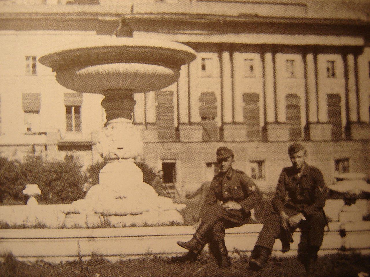 Tsarskoye Selo (Russia), Zubov Wing of the Catherine Palace.